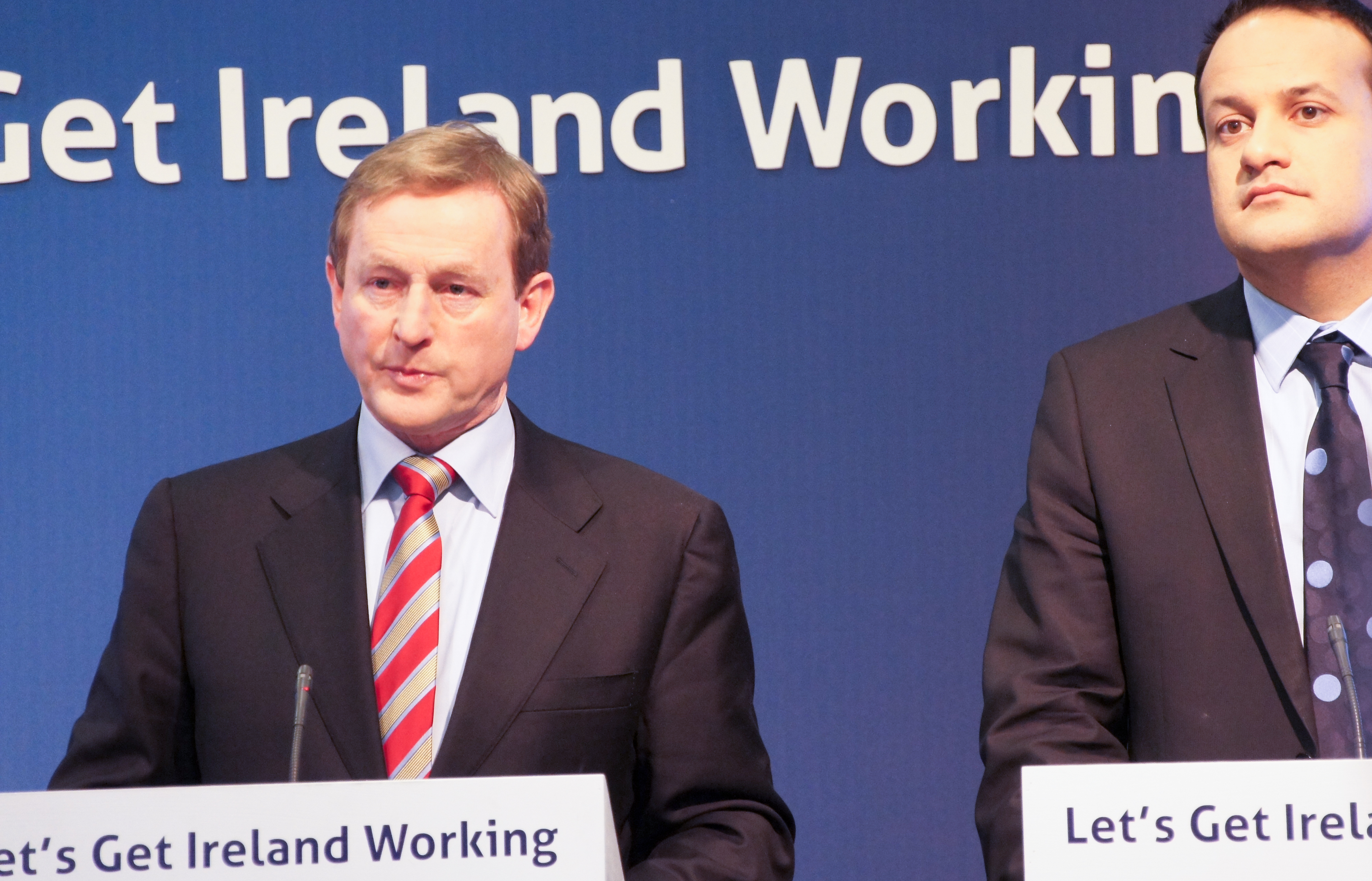 Leo Varadkar and Enda Kenny at a news conference during the 2011 General Election.